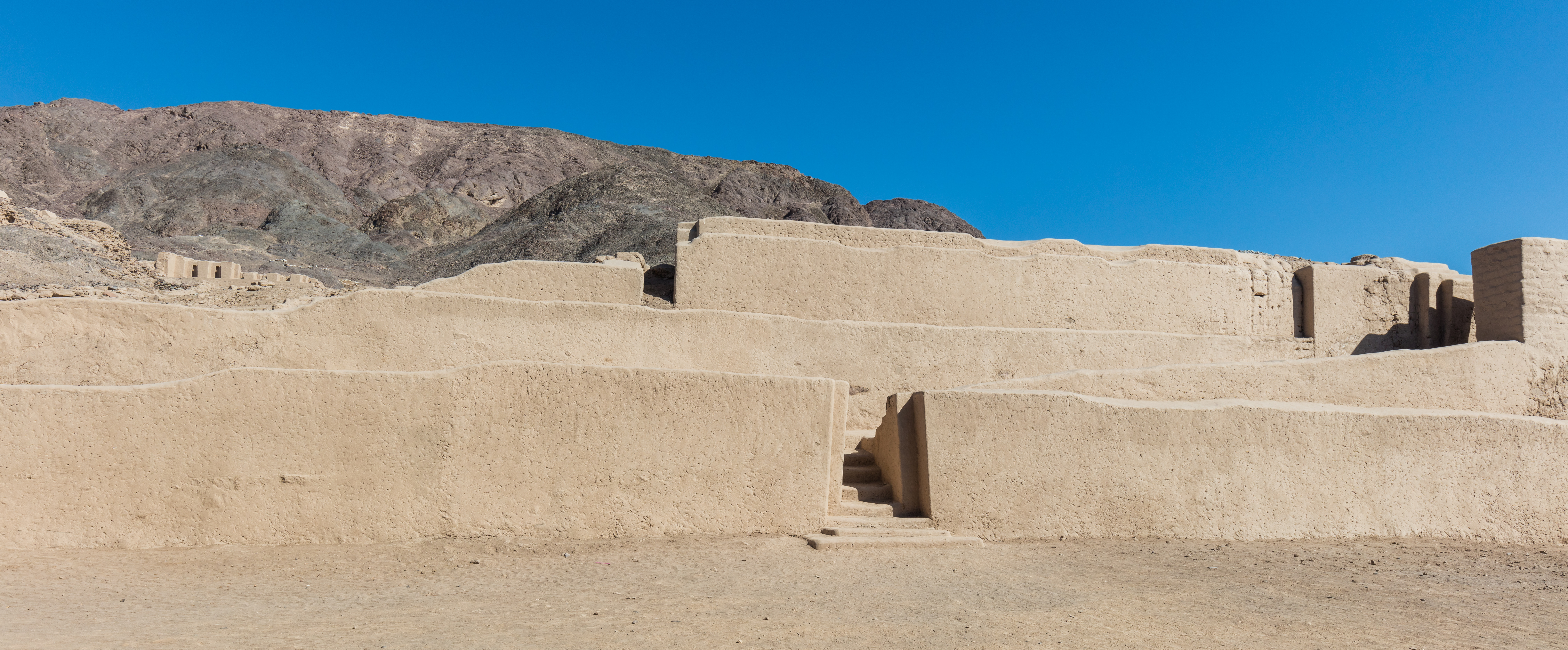 Los Paredones, Nazca, Peru